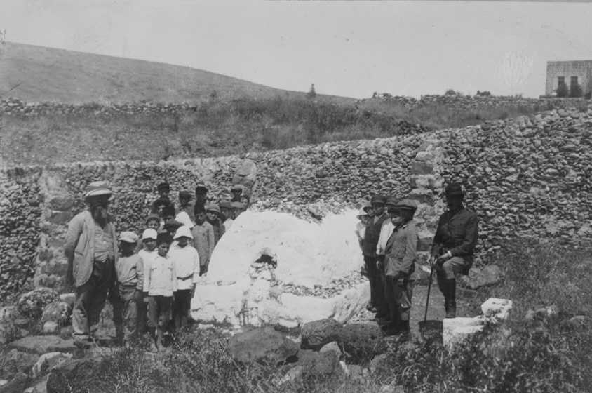 Children surrounding the tomb of Maimonidies, Tiberias